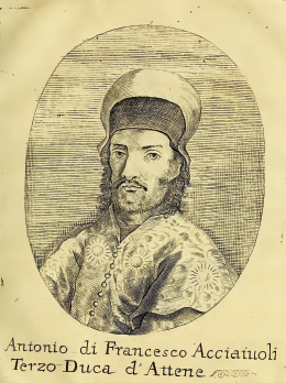 Antonio_II_Acciauoli duchy of Athens